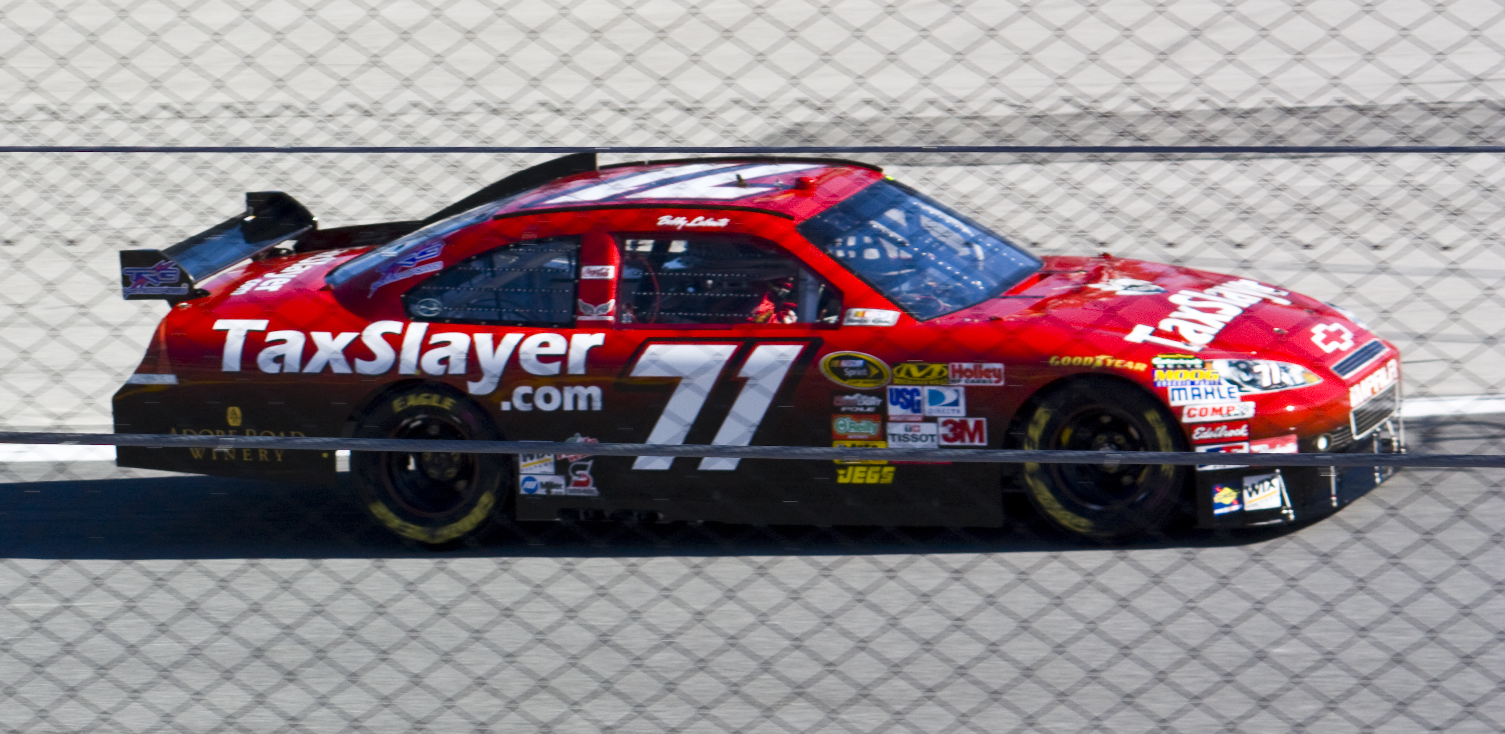 Bobby Labonte's No. 71 TaxSlayer Chevrolet at Daytona International Speedway in 2010